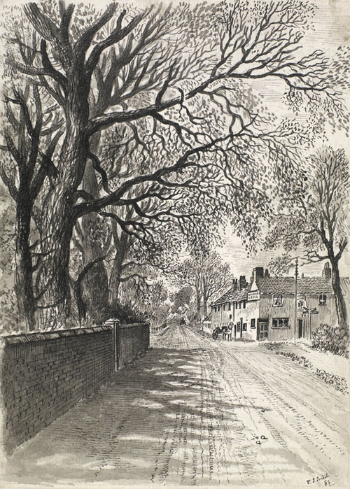 Haworth Arms, Newland, looking from the Church , 1883